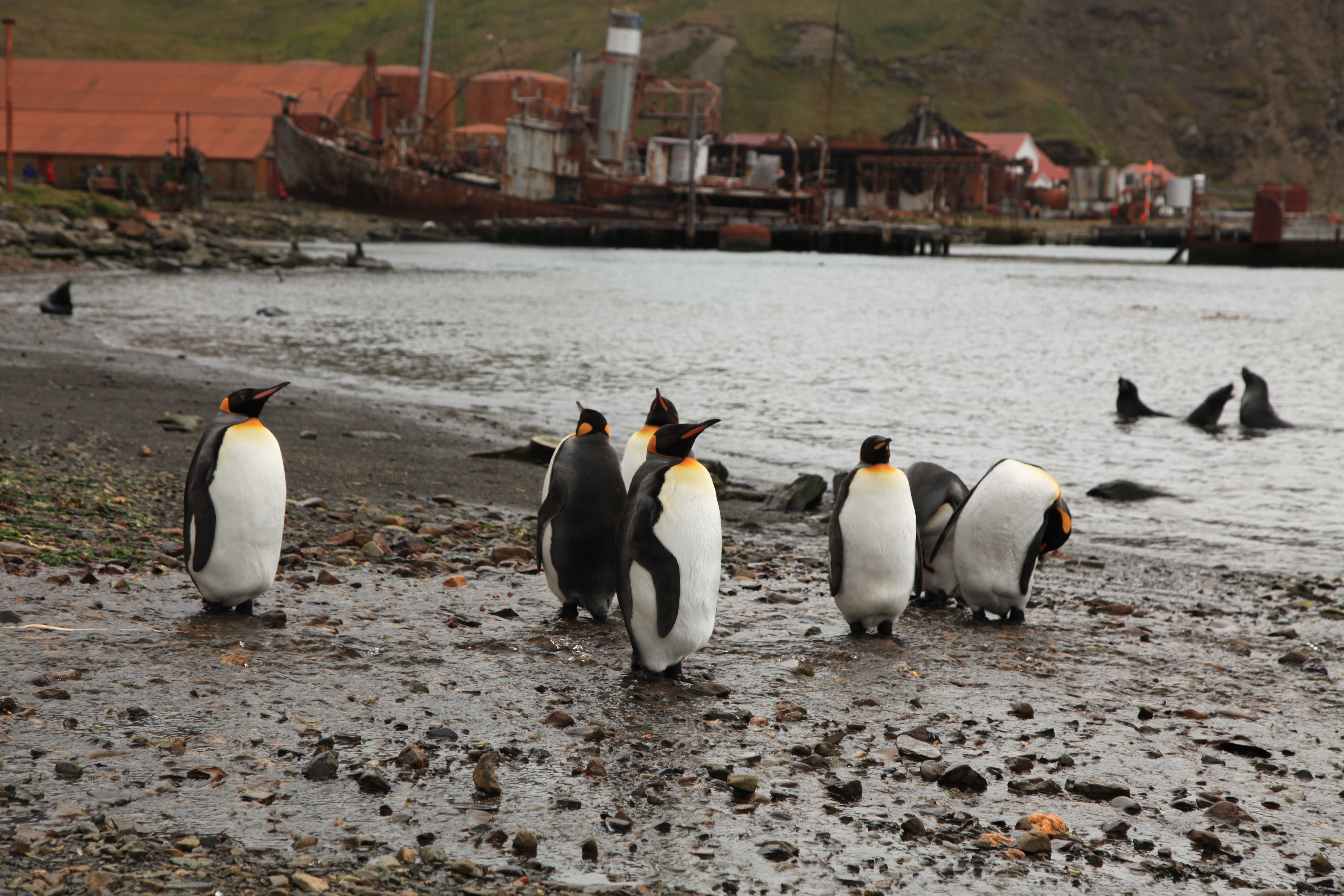 A King Penguins near Grytviken Whaling Station, South Georgia, British Overseas Territories, UK.